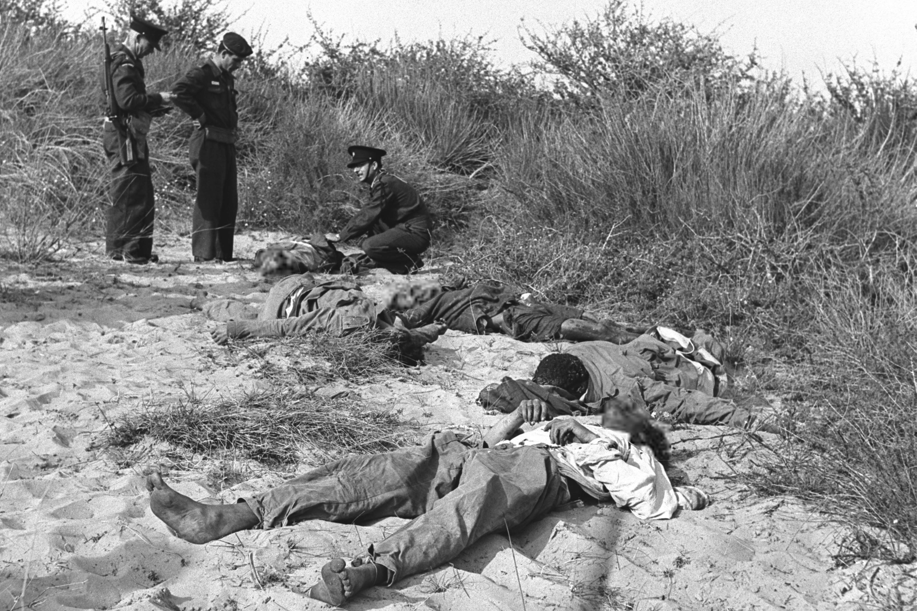 Original Description: FIVE FEDAYEEN MARAUDERS KILLED BY ISRAELI BORDER POLICE IN CHASE AFTER ATTACK NEAR NIR GALIM.